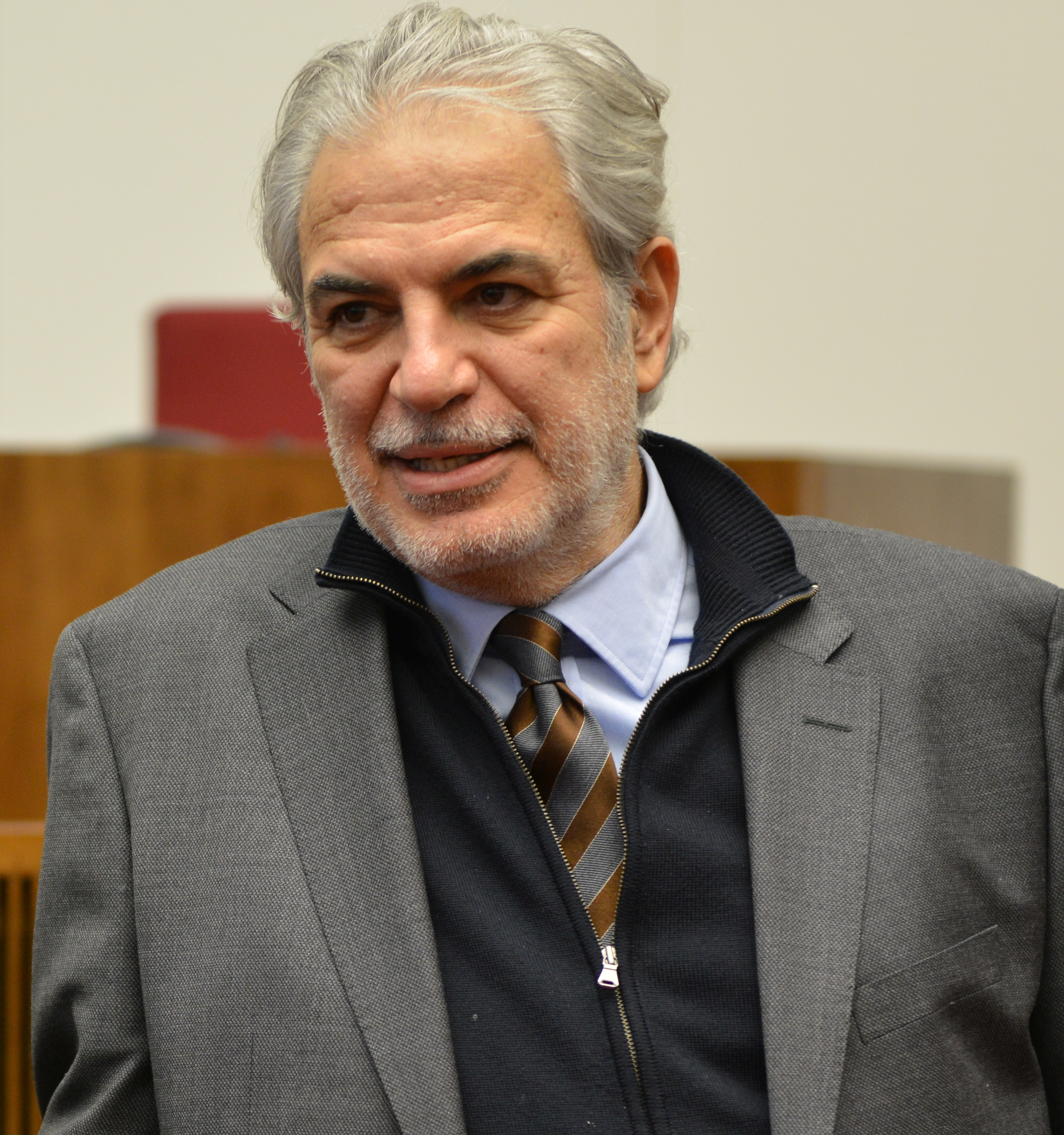 Christos Stylianides during a visit at the Bremische Bürgerschaft